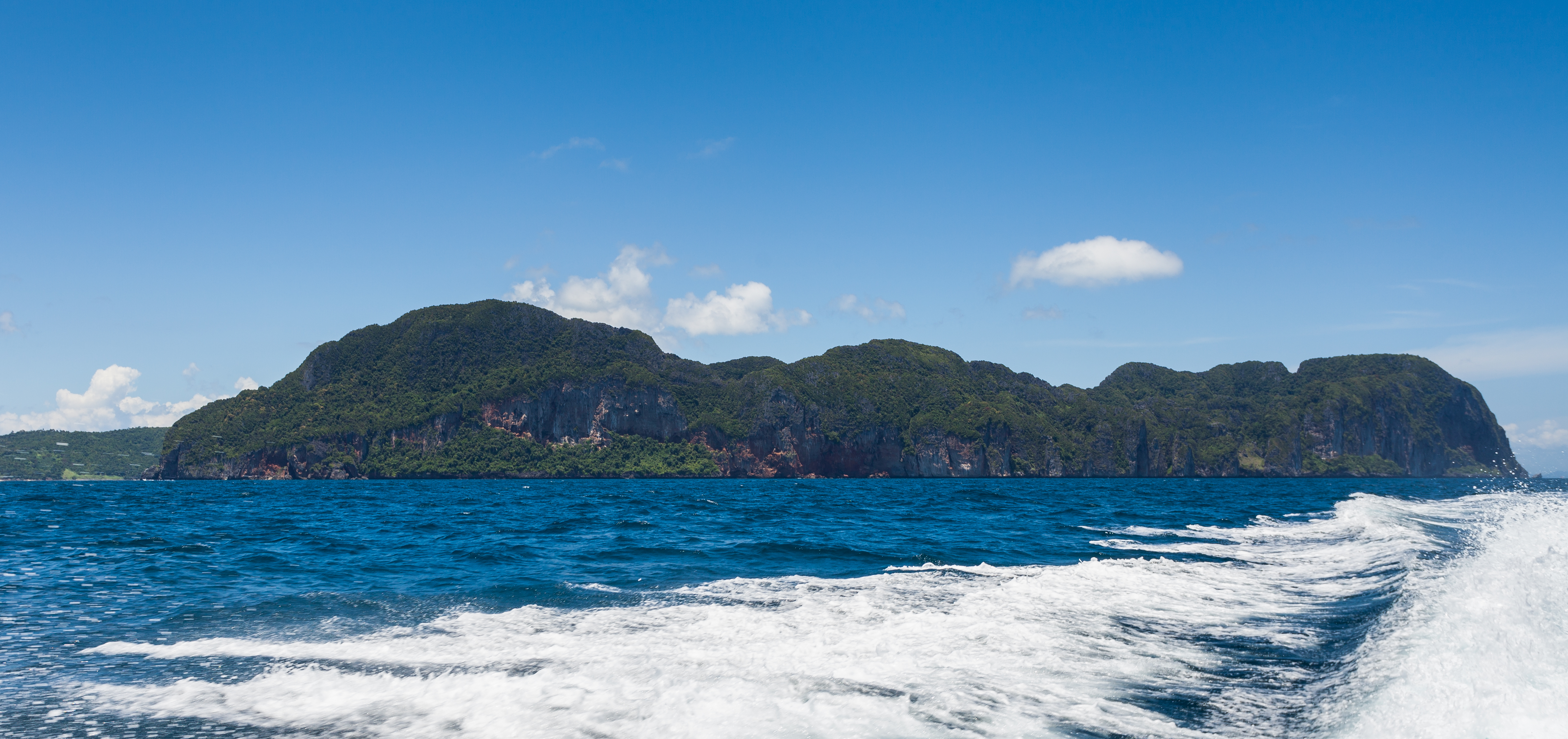 Ko Phi Phi Don Island, Thailand